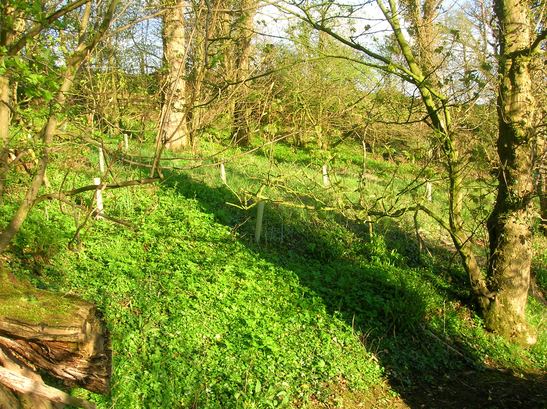 The woodlandsat Scroaggy or Fairliecrivoch